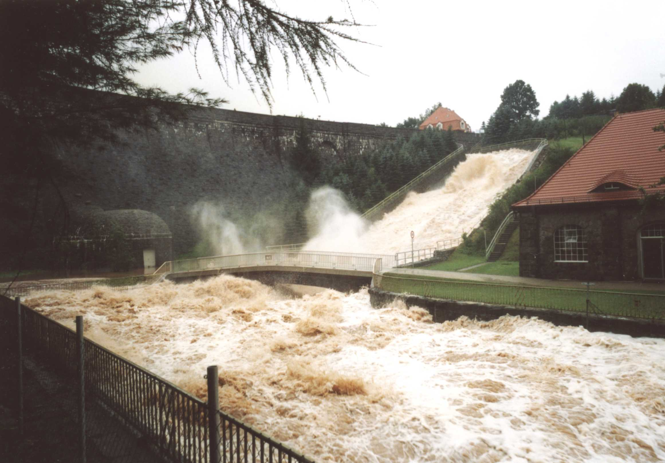 Malter dam near Dresden, Germany, spillway during flood of 2002